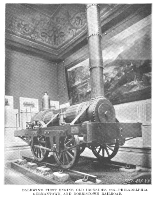 Matthew Baldwin's first locomotive delivered to Henry Campbell of the Philadelphia and Germantown Railroad in 1832. Depicted in 1897 Scientific American magazine article. Now public domain.